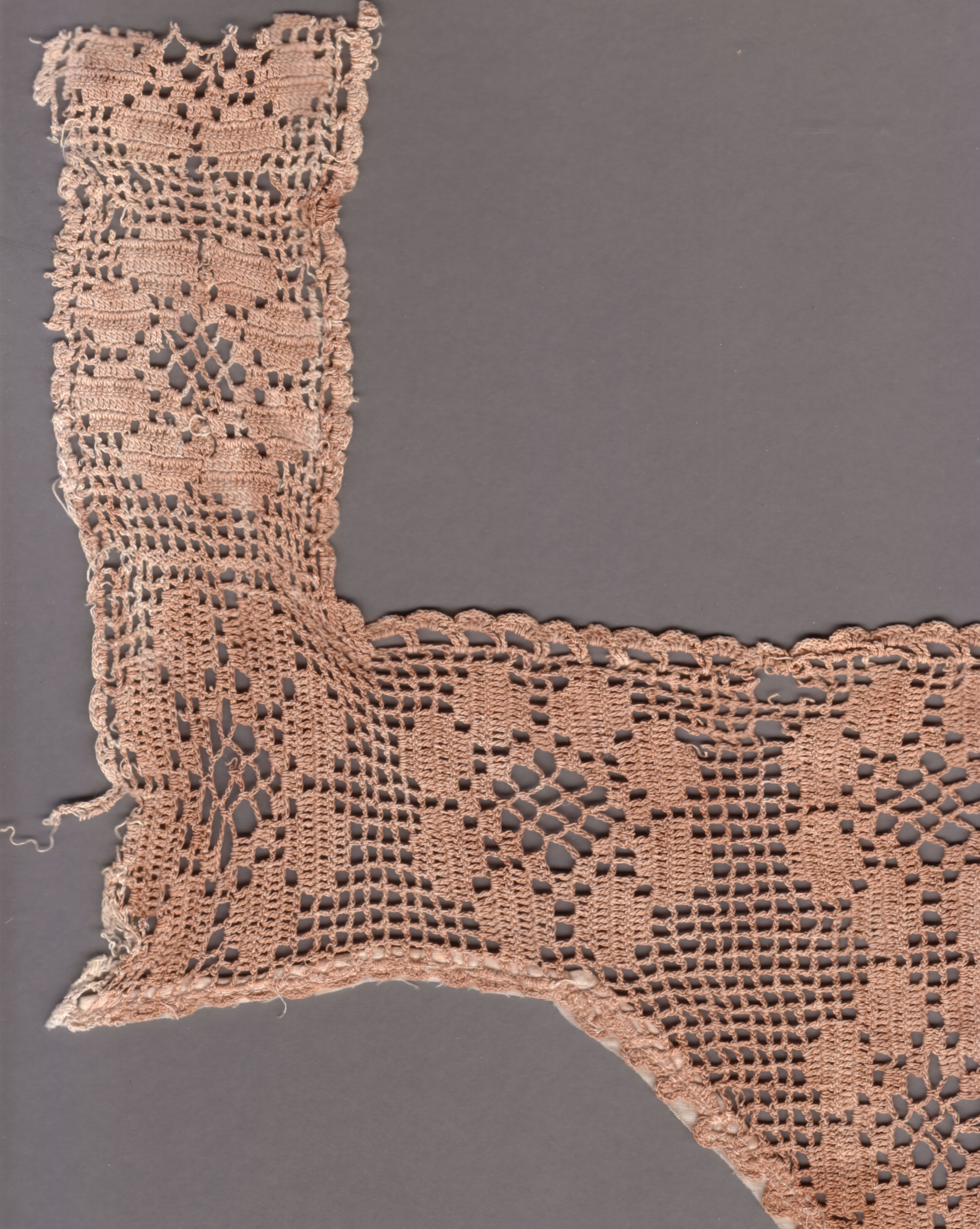 Linen crocheted collar showing deterioration and discoloration from inadequate storage